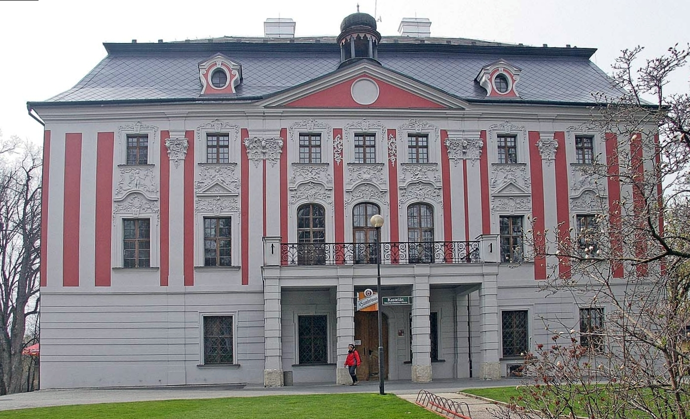 16th century château in classical Baroque-Rococo character, a former estate and residence of the Moravian-Bohemian Counts of Chorinsky Barons of Ledske dynasty, in Velké Hoštice, district Opava, Czech Republic